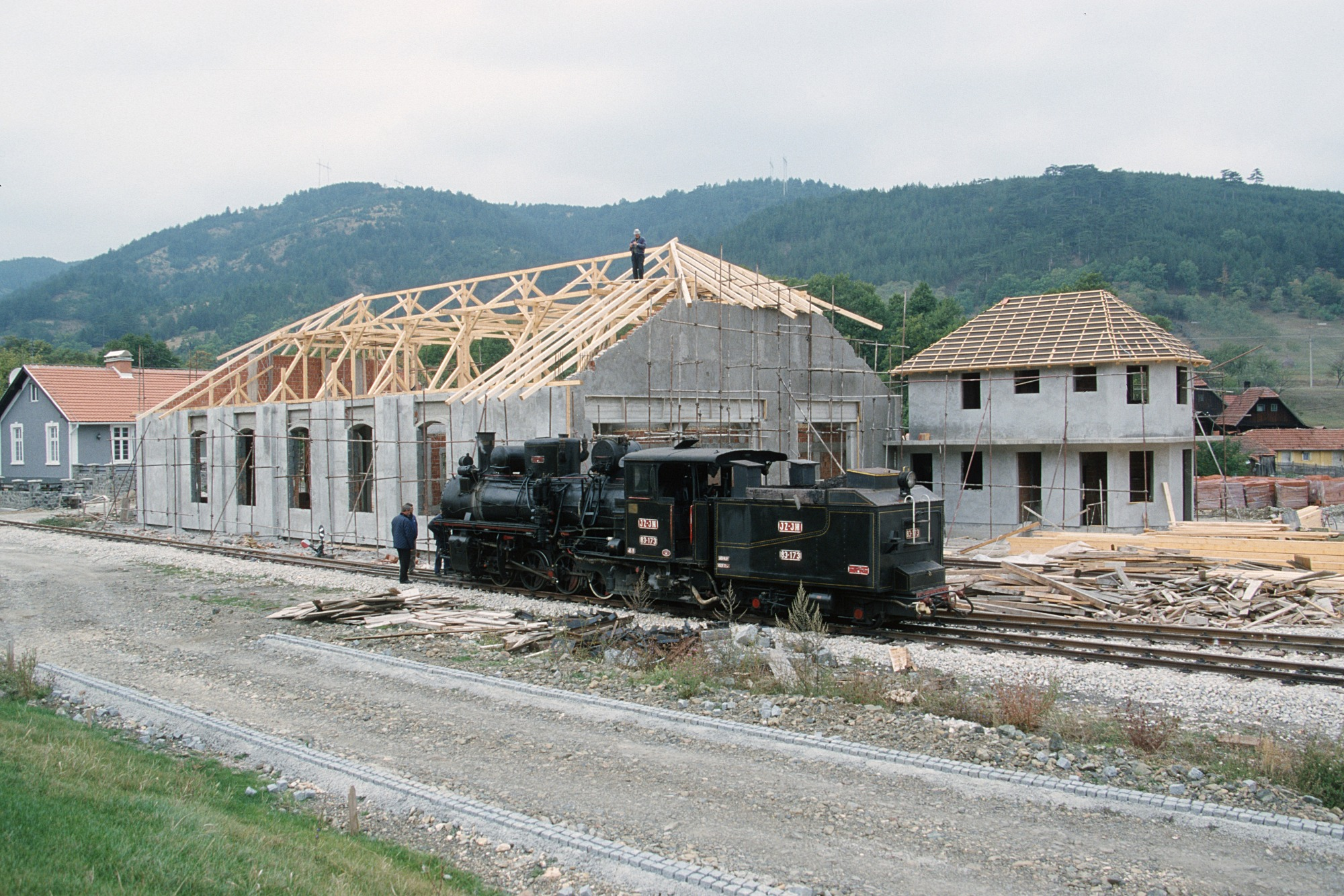 The new three road engine shed at Šargan Vitasi under construction in 2003.